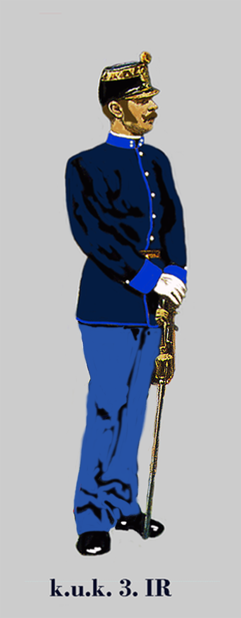 1st lieutenant of the k.u.k. 3rd Infantry Regiment (German Infantry) in parade dress 1914